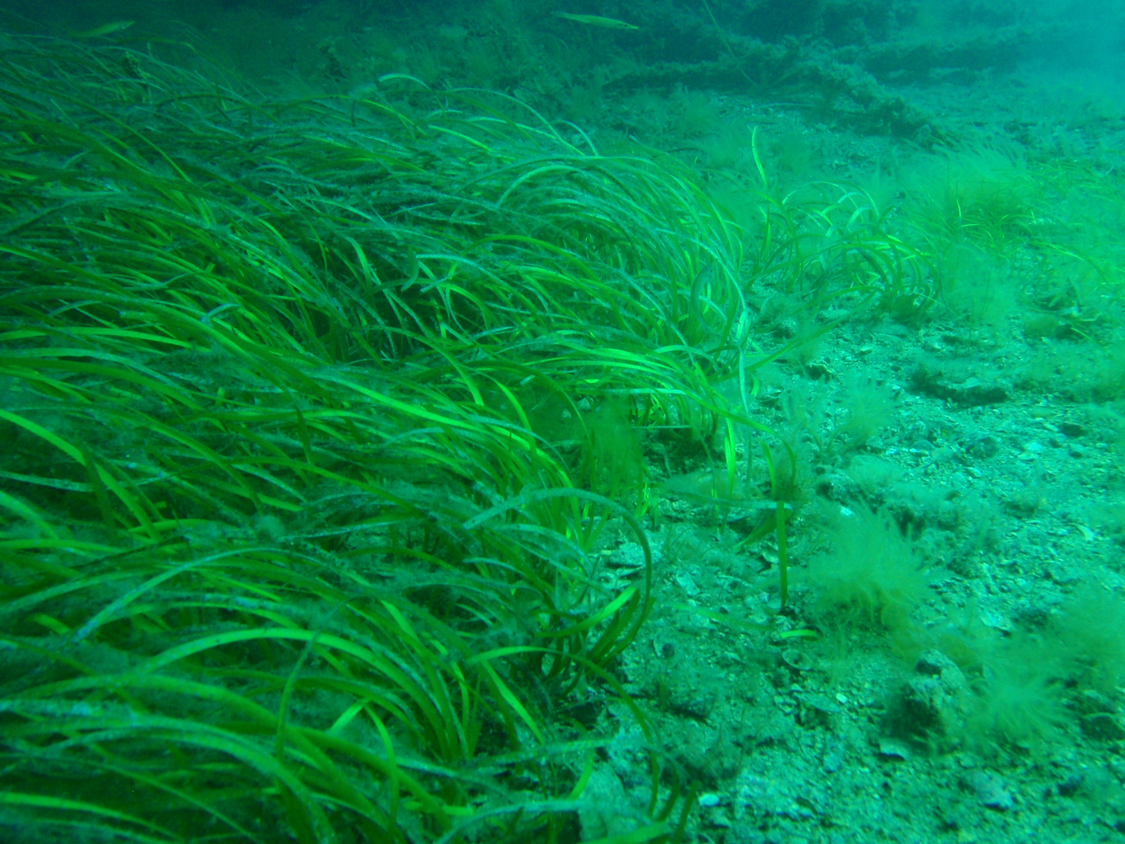 Seagrass at Rapid Bay Jetty